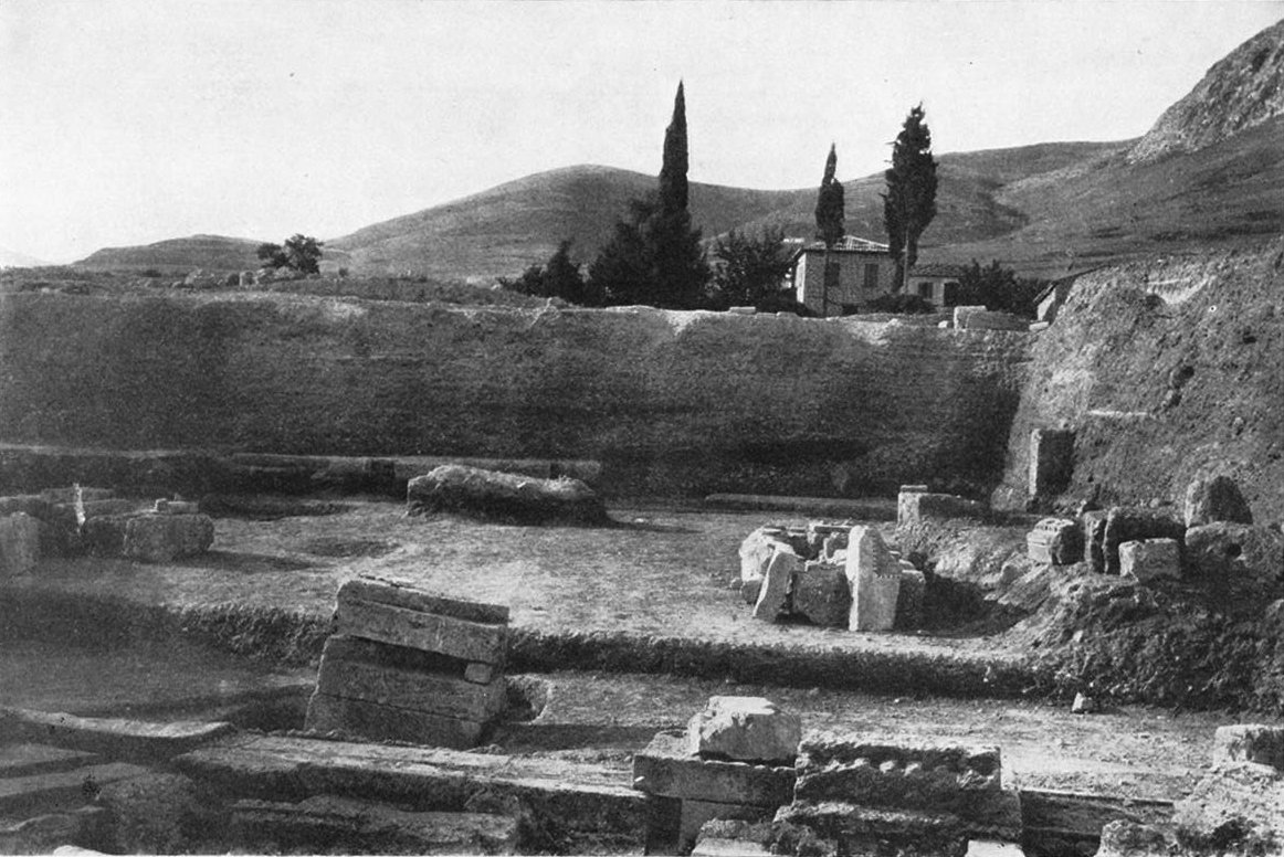 Original caption: "Excavation area at Corinth in 1905."